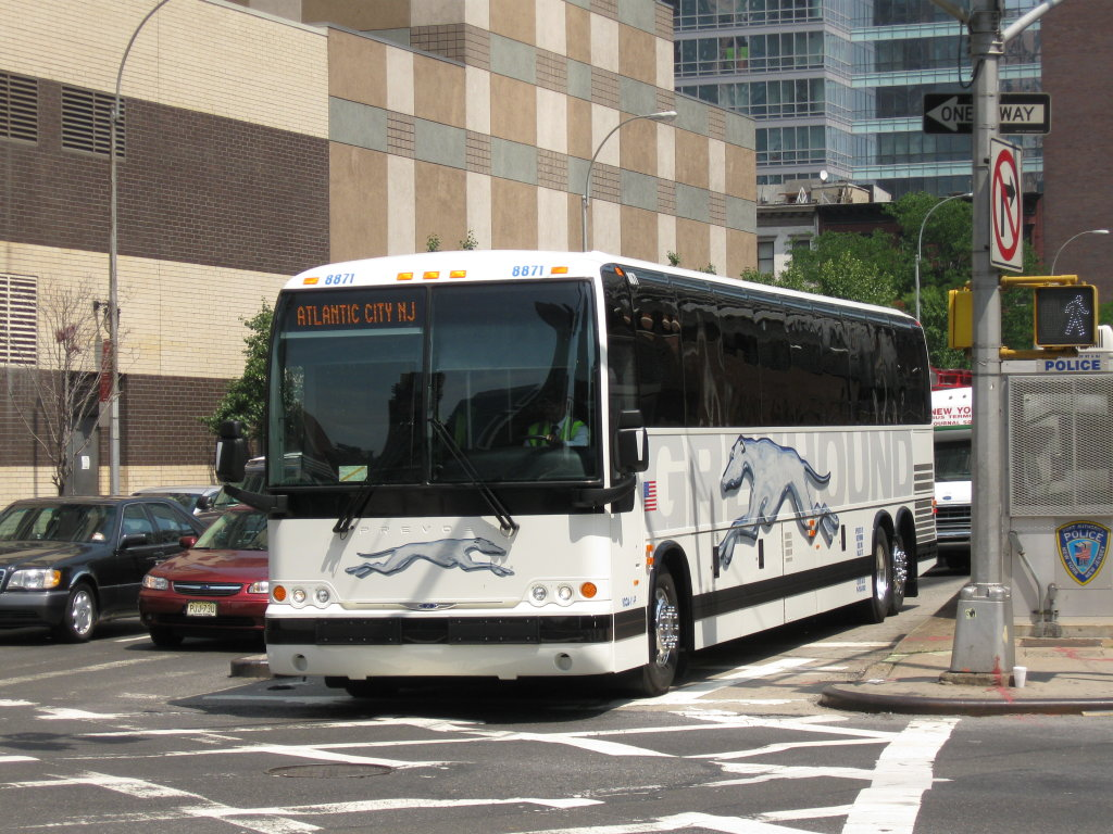 Greyhound Lines Prevost X3-45 #8871 operates schedule 8531, departing the Port Authority Bus Terminal.